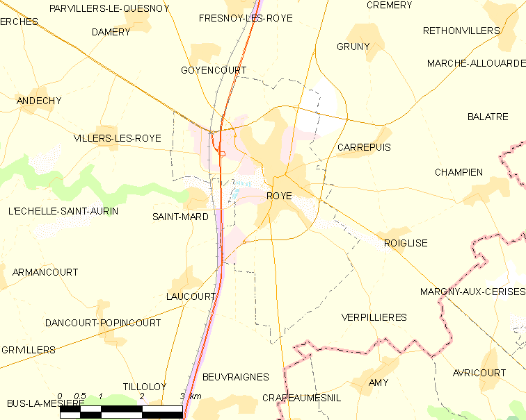 Map of French municipality Roye